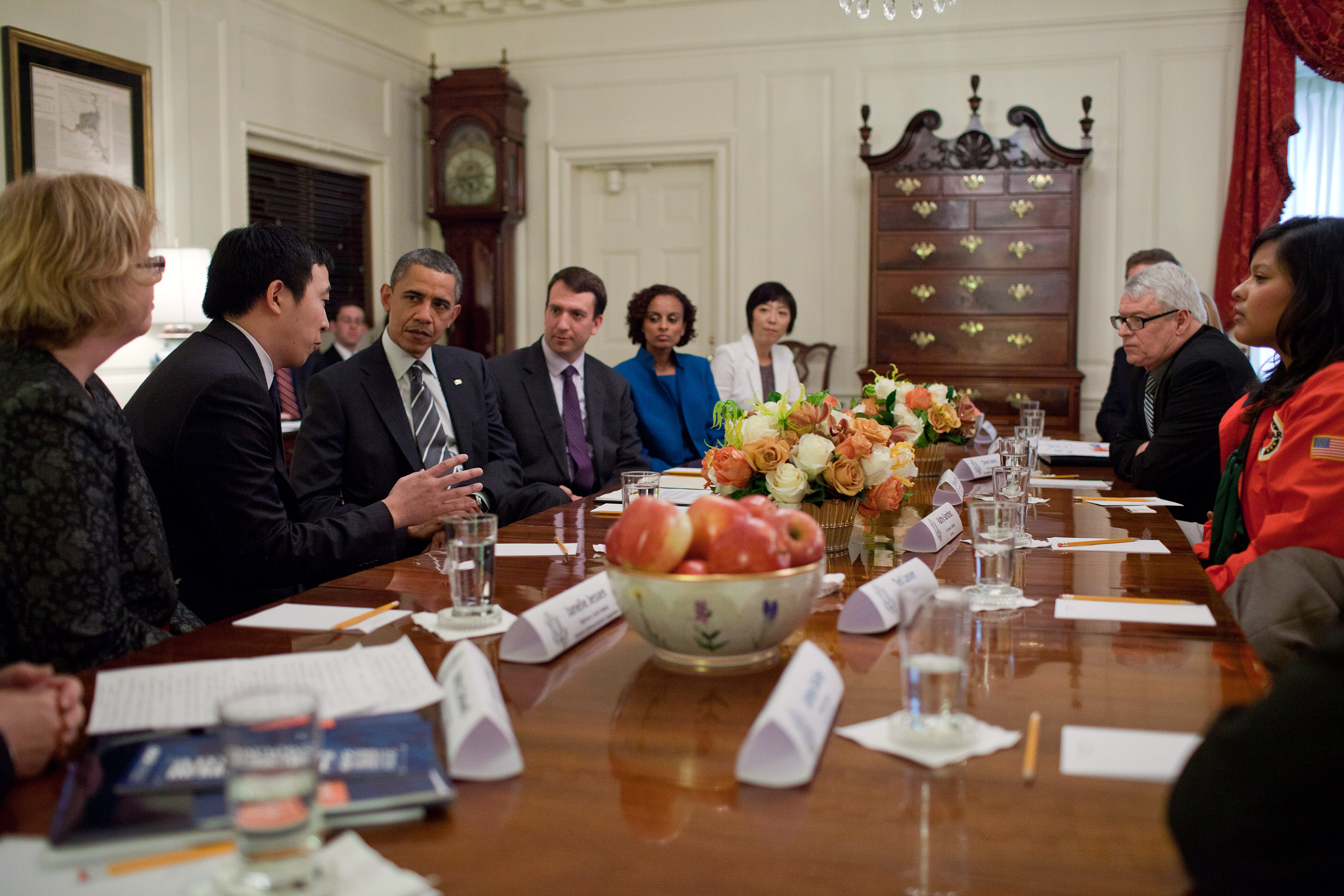 Andrew Yang, recognized as a White House Champion of Change, meets with former President Barack Obama in the Map Room of the White House, April 26, 2012. (Official White House Photo by Pete Souza)